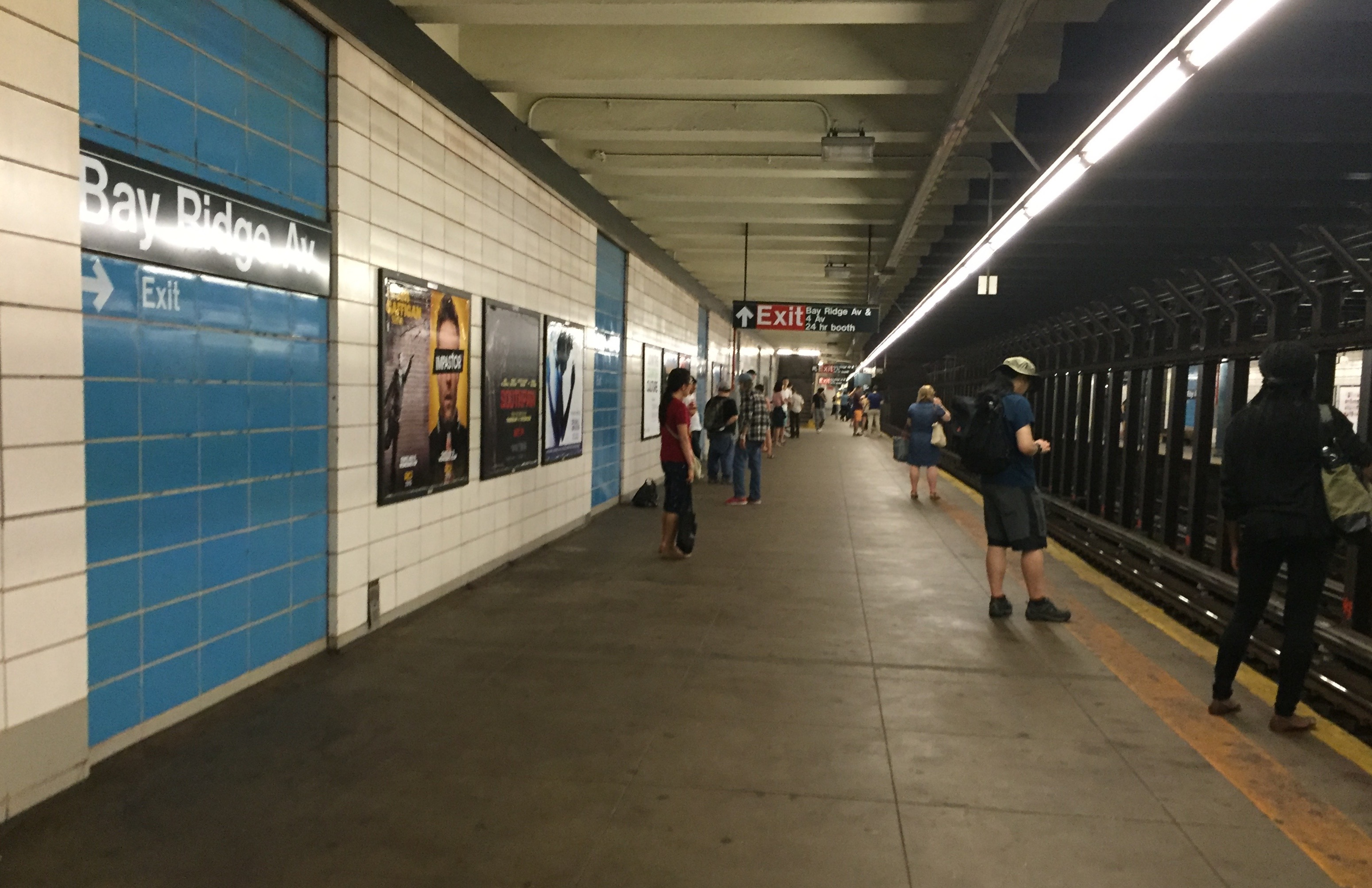 Uptown platform at Bay Ridge Avenue on the R.